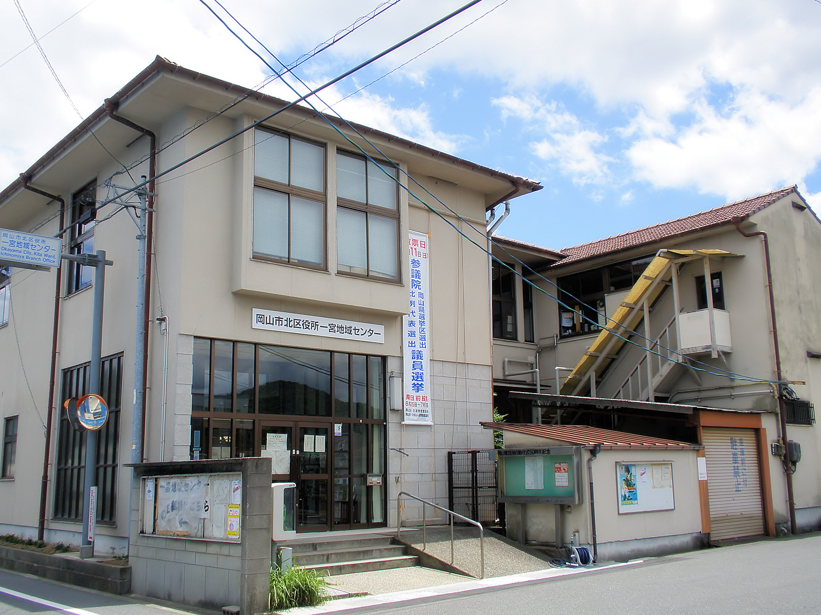 Okayama city Kita ward office Ichinomiya regional center Former Ichinomiya town office, Mitsu District ( - 1971.1.7) Former Okayama city office Ichinomiya branch (1971.1.8 - 2009.3.31)